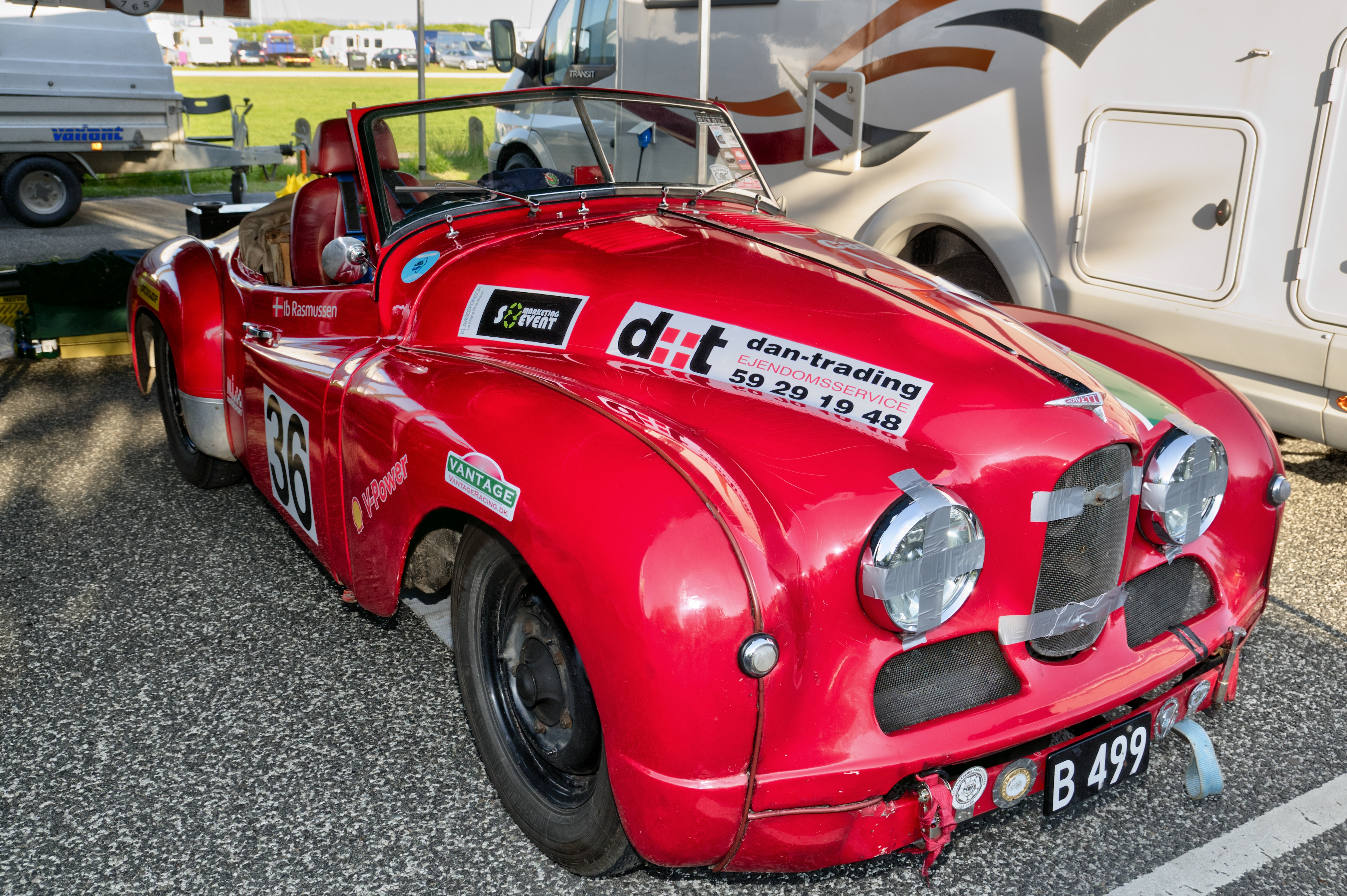 1950 Jowett Jupiter in the paddocks of the 2014 CRAA classic race in Aarhus. Driver: Cira Aalund (DK) Racing class: Le Mans & Prototypes (show class) Race number: 36